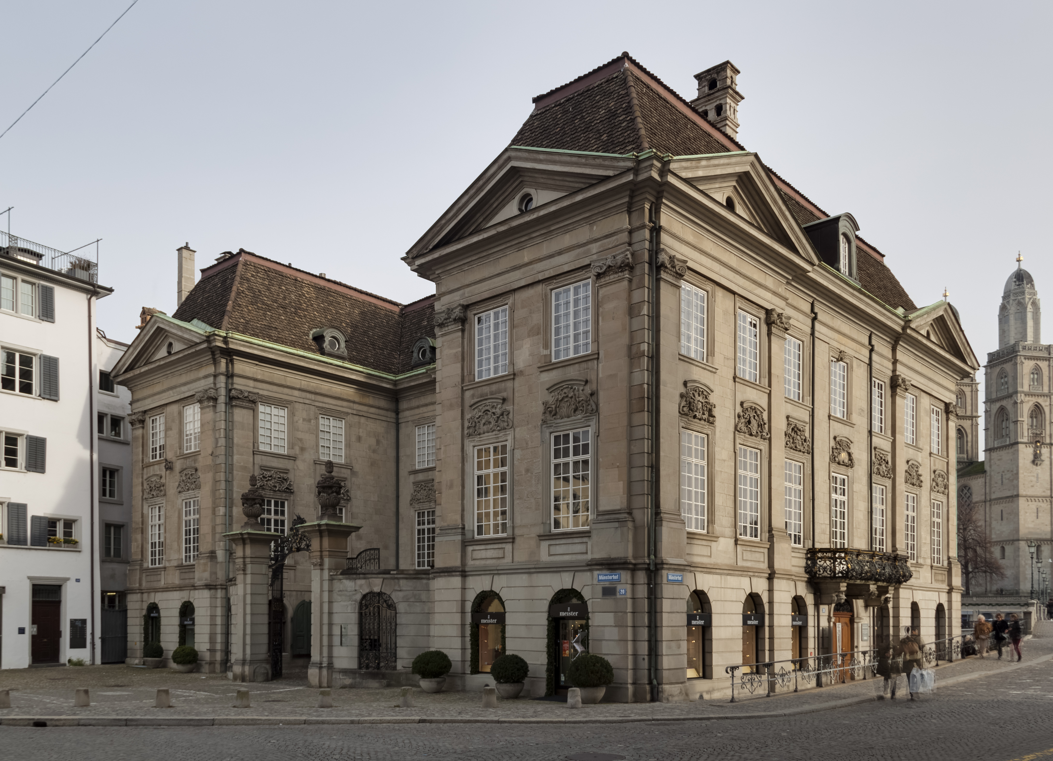 Zunfthaus zur Meisen guild house in Zürich.